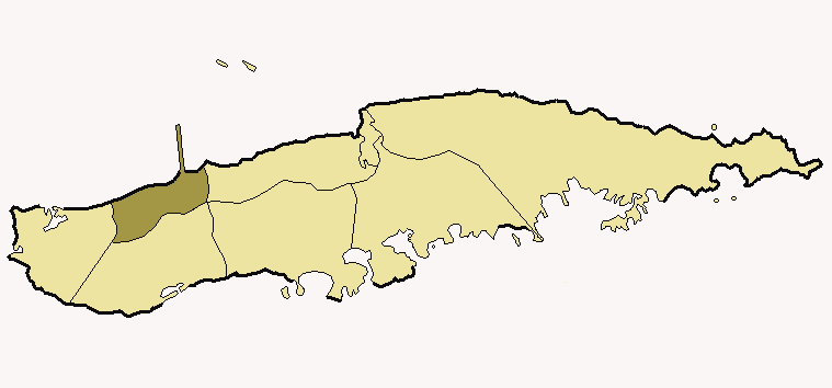 Map of Vieques (Puerto Rico) highlighting Mosquito ward.